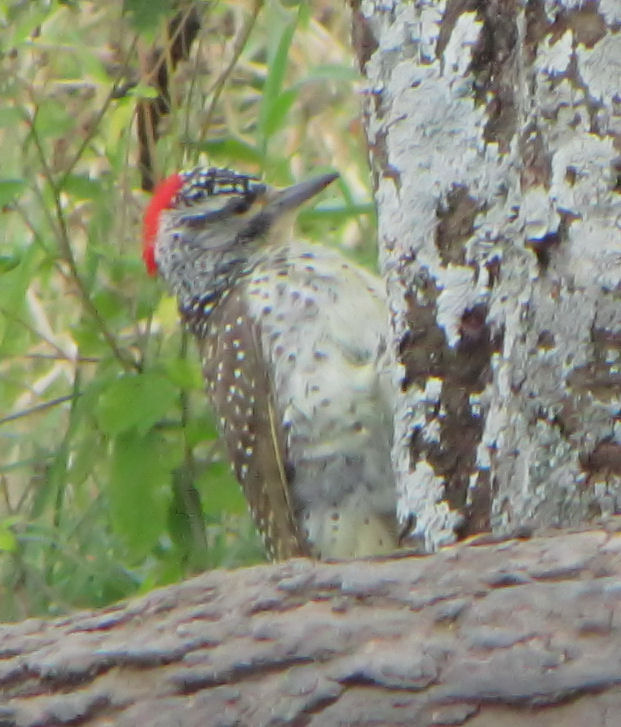 Nubian Woodpecker (Campethera nubica), Serengeti National Park, Tanzania